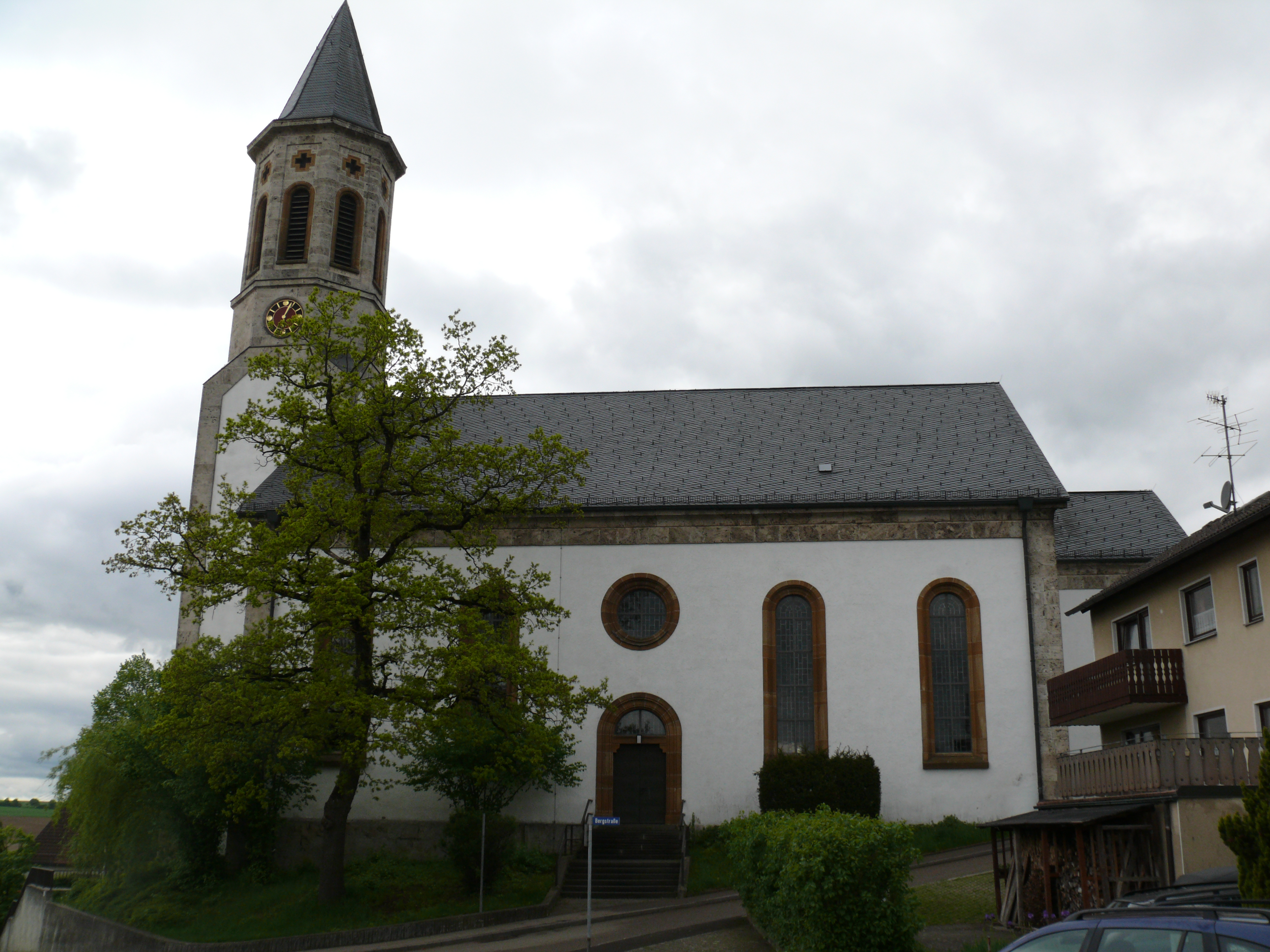 View of the Saint Martin’s Church in Söhnstetten (a district of Steinheim am Albuch, Baden-Württemberg, Germany), seen from the east, from the Jägerstraße.